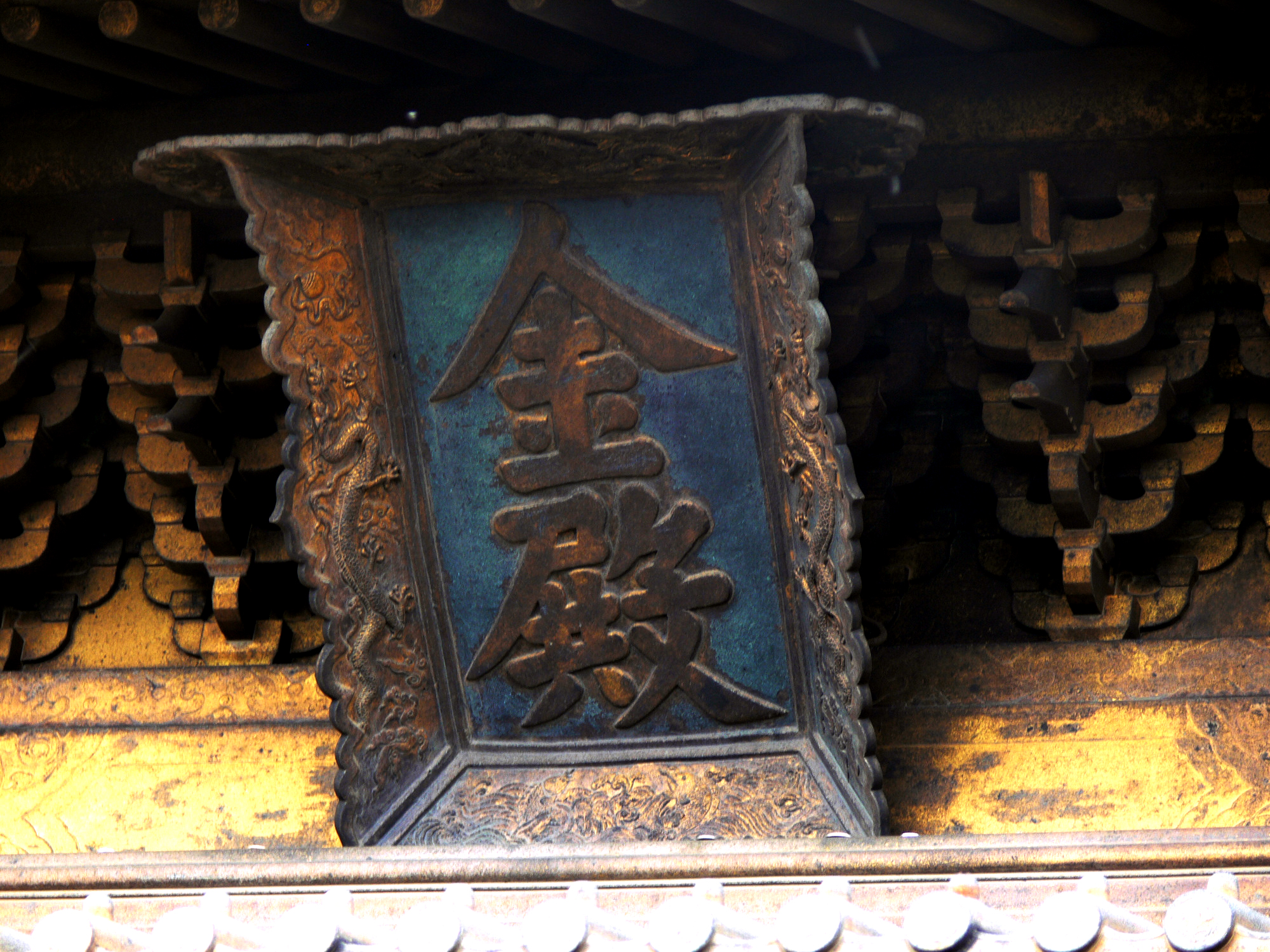 Golden Hall of Wudang Mountains